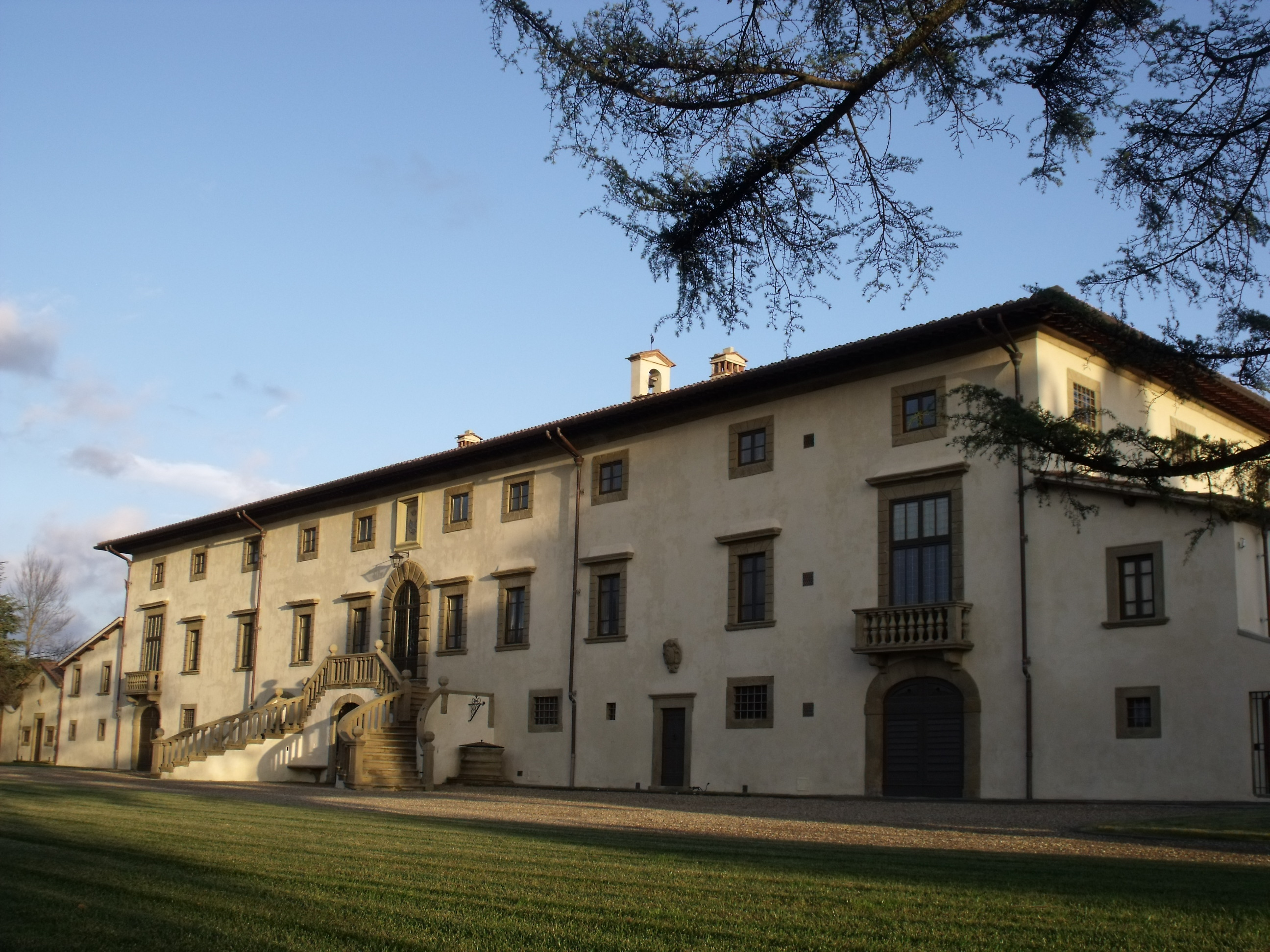 Villa Monsoglio in Laterina, Valdarno, Province of Arezzo, Tuscany, Italy